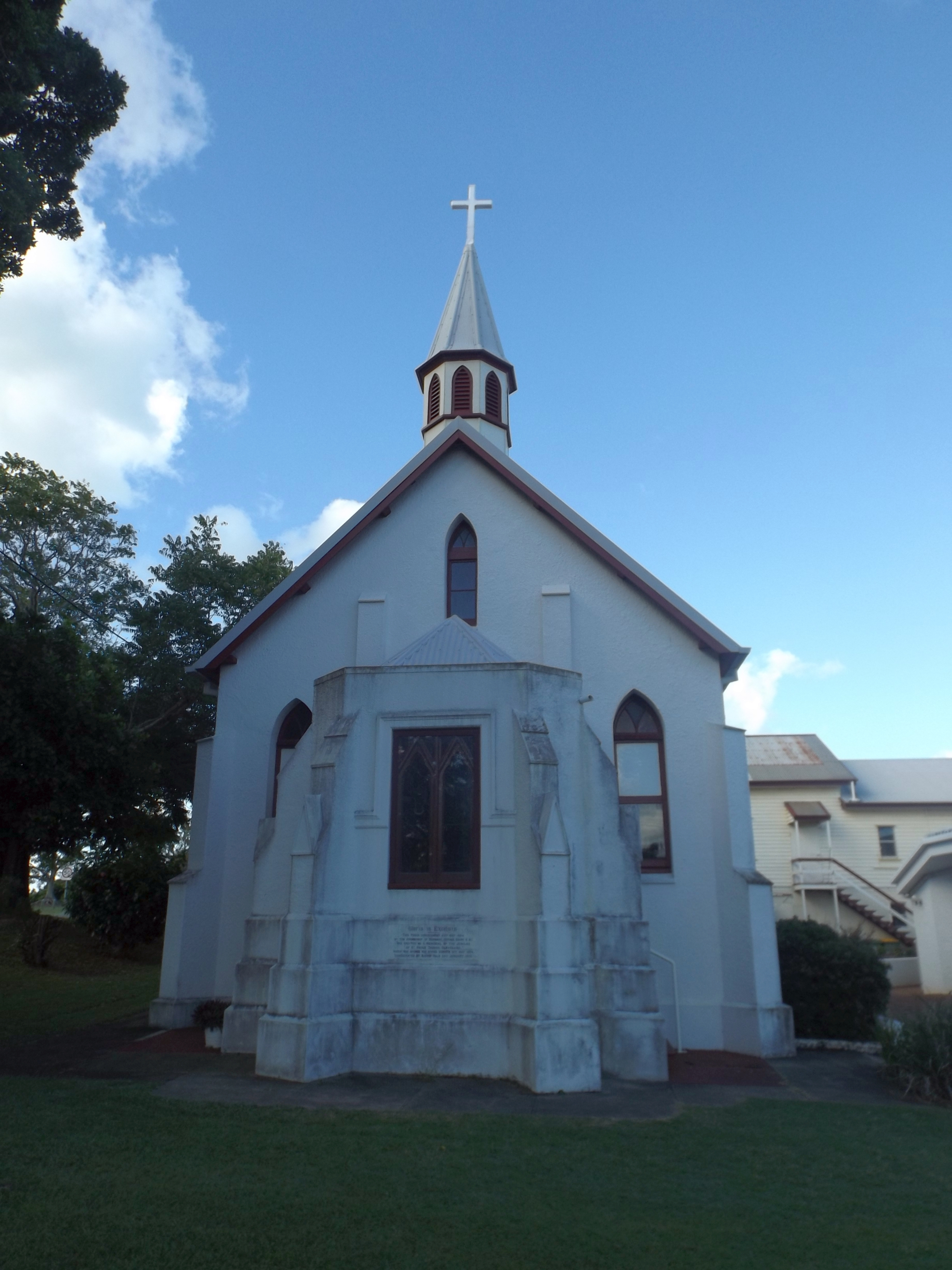 Photo of St Pauls Anglican Church at Cleveland, City of Redland, Queensland, Australia.